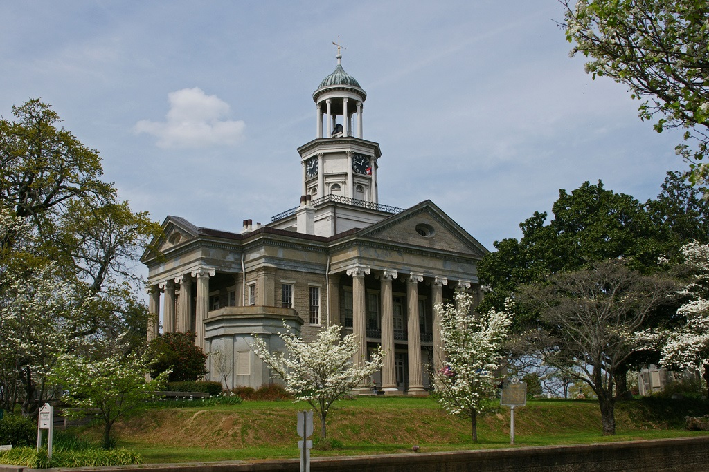 The old courthouse is now a Civil War Museum.